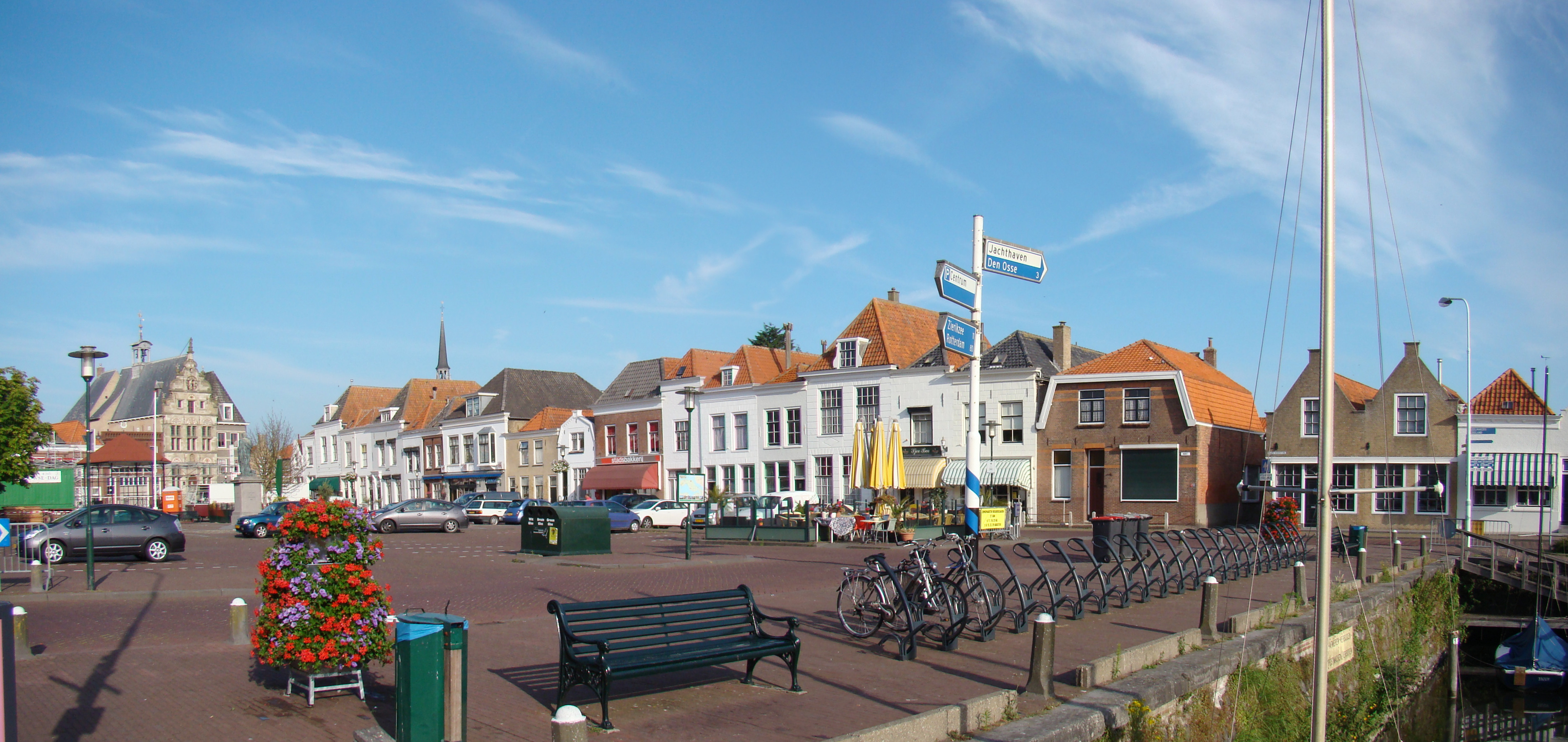 Impressions of Brouwershaven, Netherlands